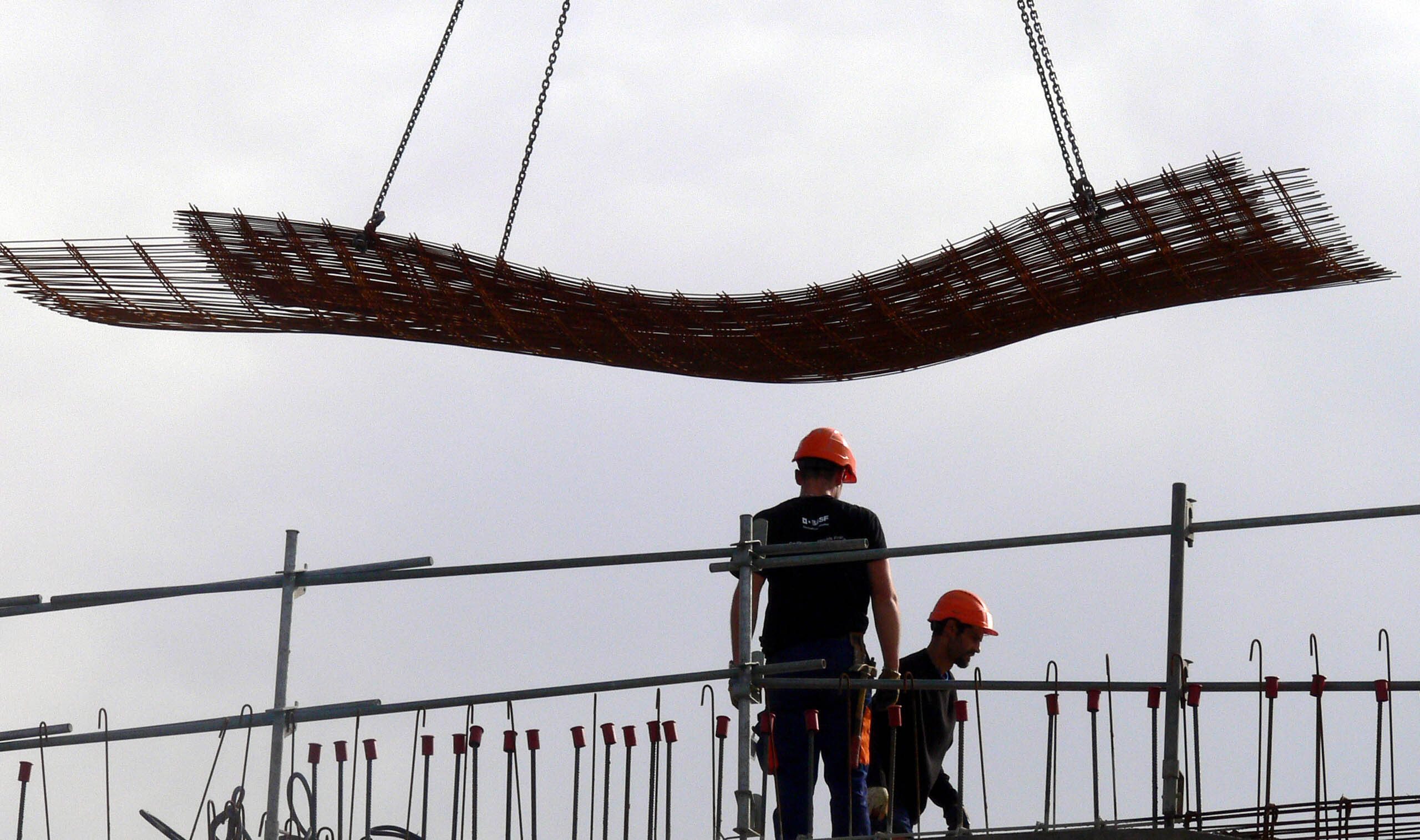 Reinforcement work for concrete, in Lille, north of France